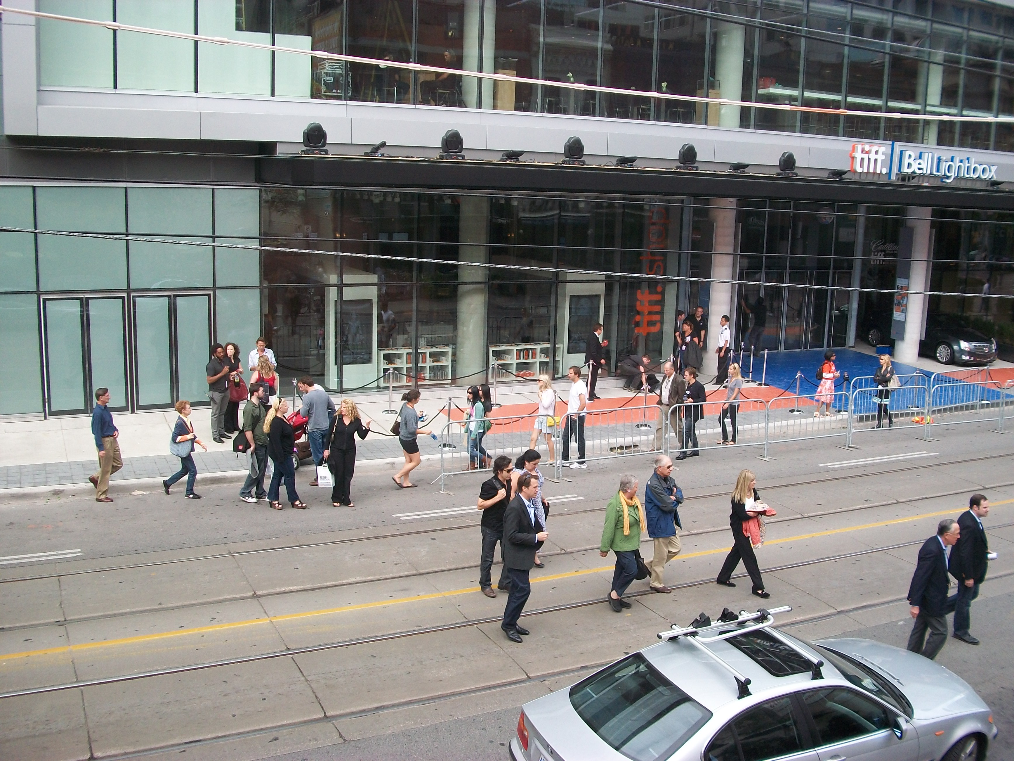 TIFF Bell Lightbox, one day before its official opening, shot from Dhaba Restaurant across the street.